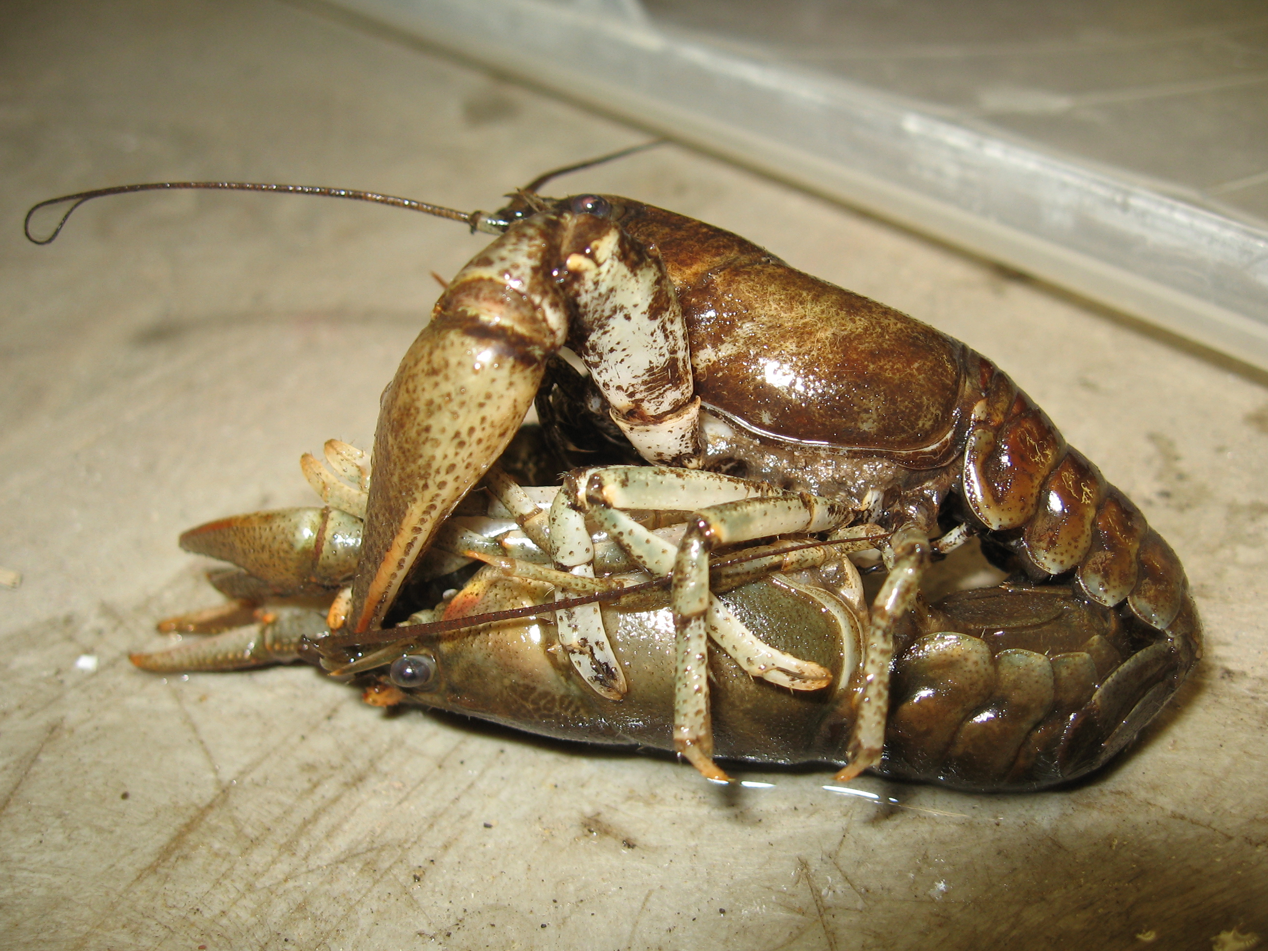 Two Alleghany Crayfish (Orconectes obscurus) in a mating position, with the male on top, restraining the female below. These crayfish were collected from the West Branch of the Mahoning River in Ravenna, Ohio.